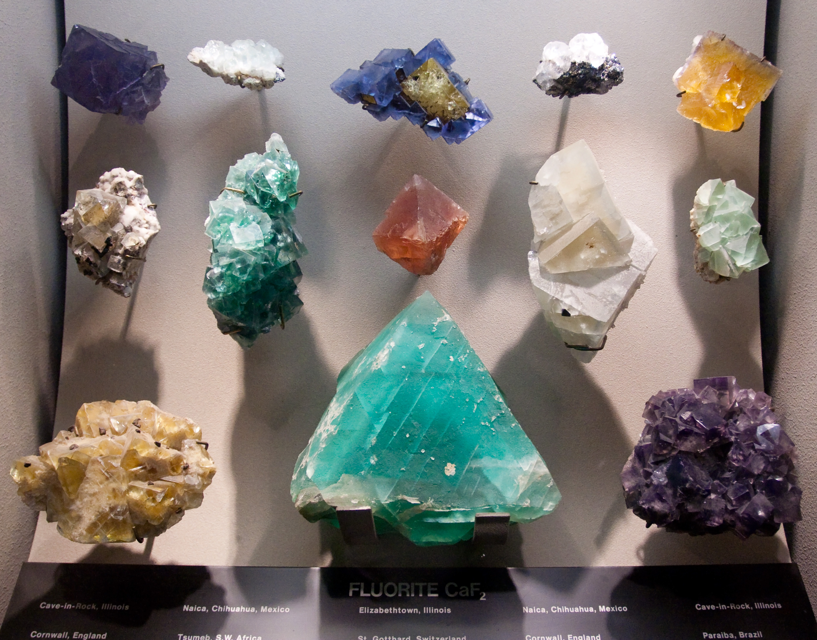 Various pieces of fluorite on display at the New York Museum of Natural History.